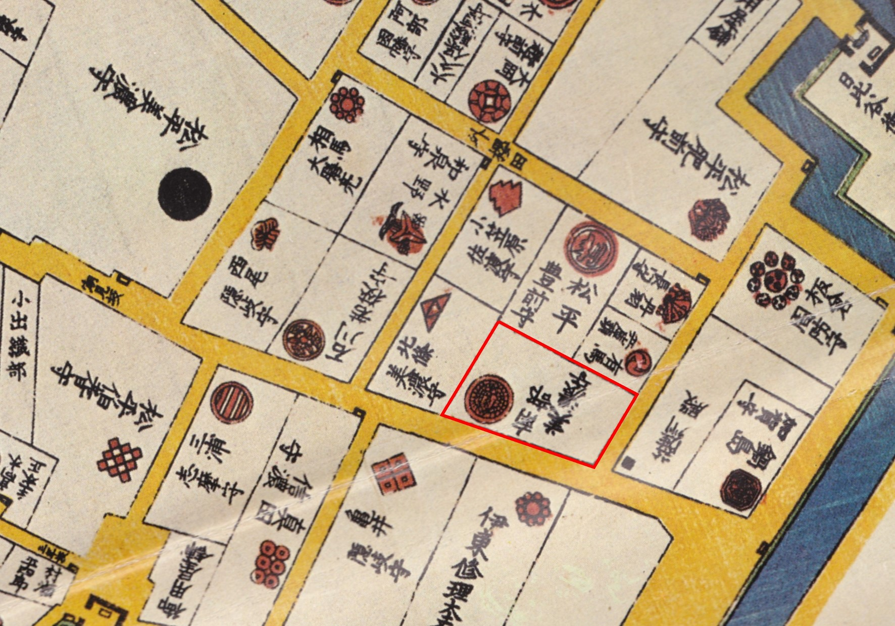 Nambu residence marked on old map